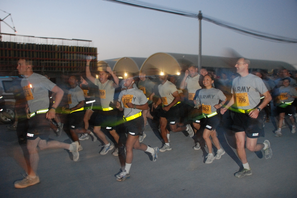 KANDAHAR TEN-MILER U.S. Army troops pass by the starting point of the Army Ten-Miler run on Kandahar Airfield, Afghanistan, Oct. 4, 2009. More than 900 runners from 14 coalition forces participated in the run. Based in Washington, D.C., the Army Ten-Miler committee selected the 82nd Combat Aviation Brigade, deployed as the U.S. Army aviation asset to the southern region, to host the run for troops in Regional Command South. U.S. Army photo